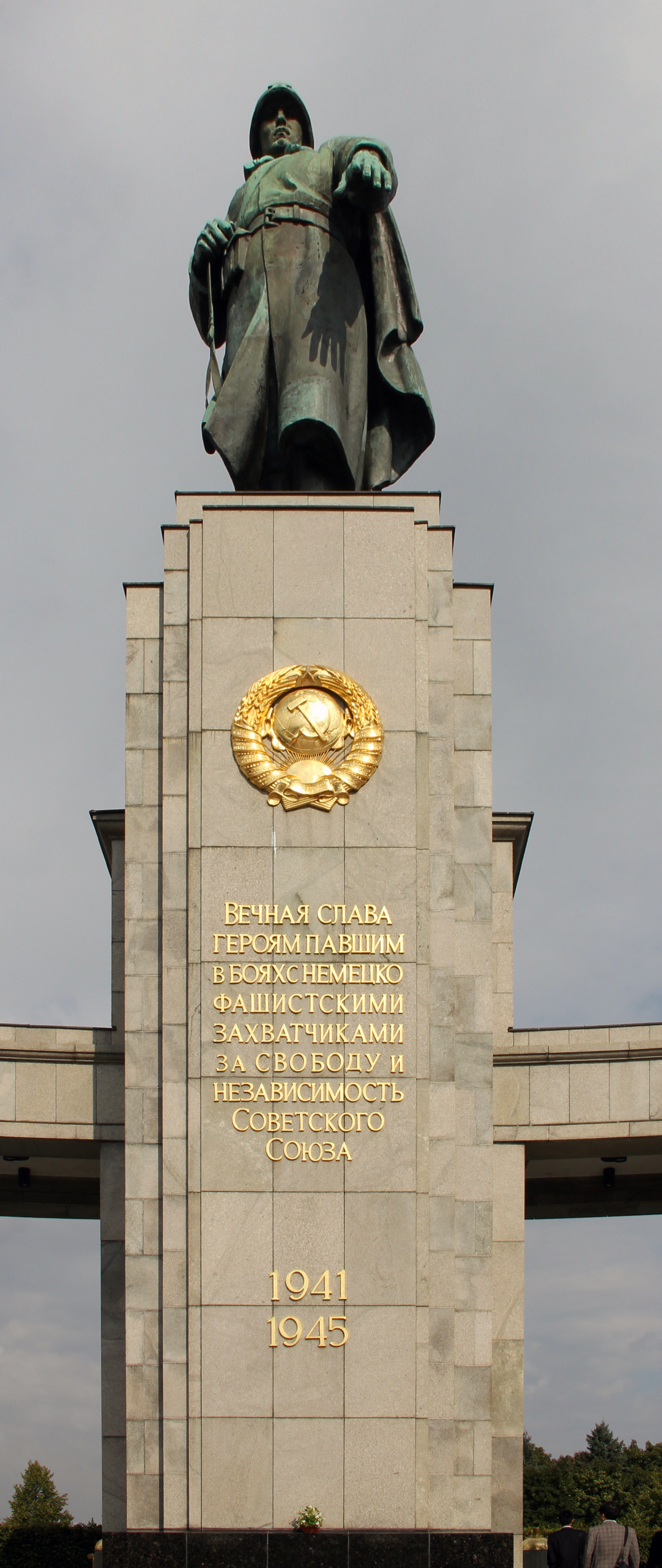 Statue, "Sowjetisches Ehrenmal" by Lew Jefimowitsch Kerbel, 1945, Straße des 17 Juni, Berlin-Tiergarten, Germany